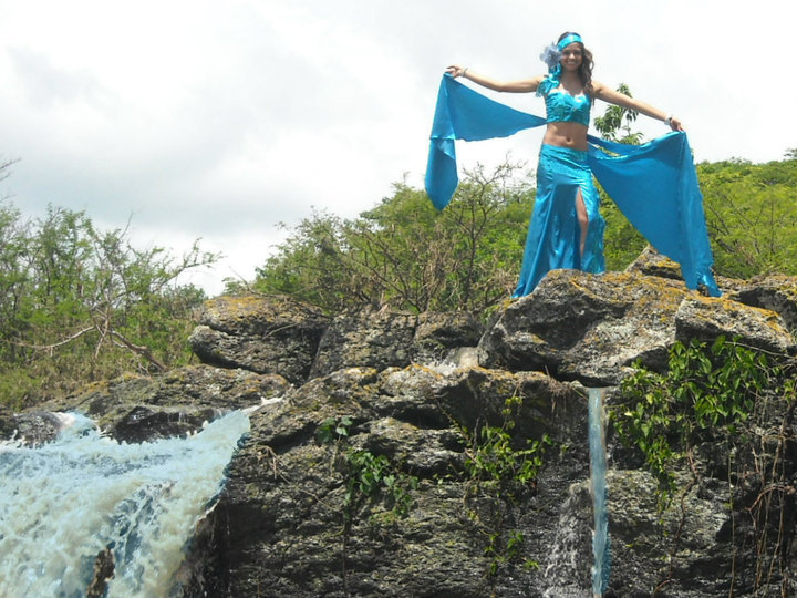 Las Tinajas